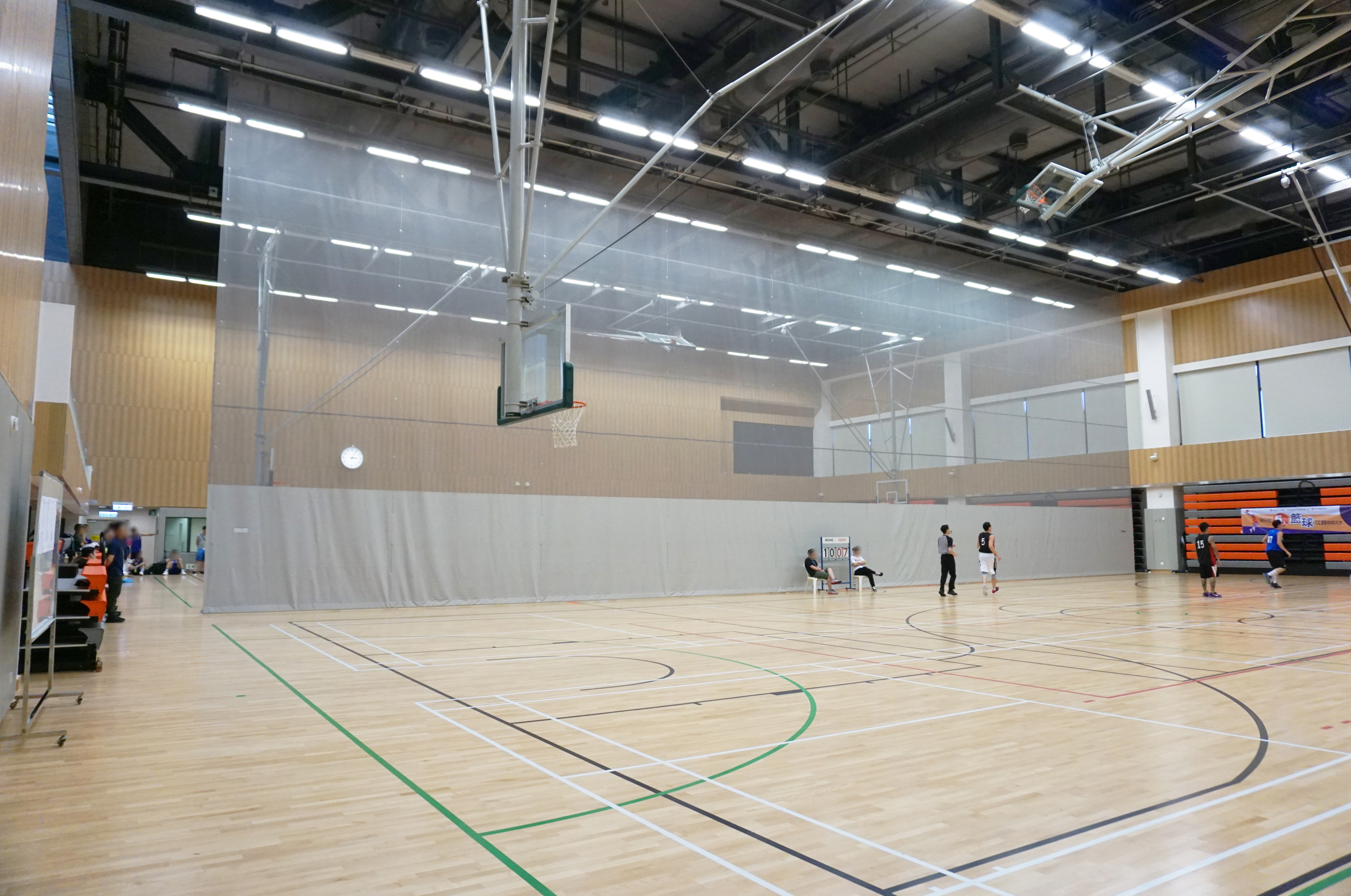 Harbour Road Sports Centre in Wan Chai, Hong Kong.